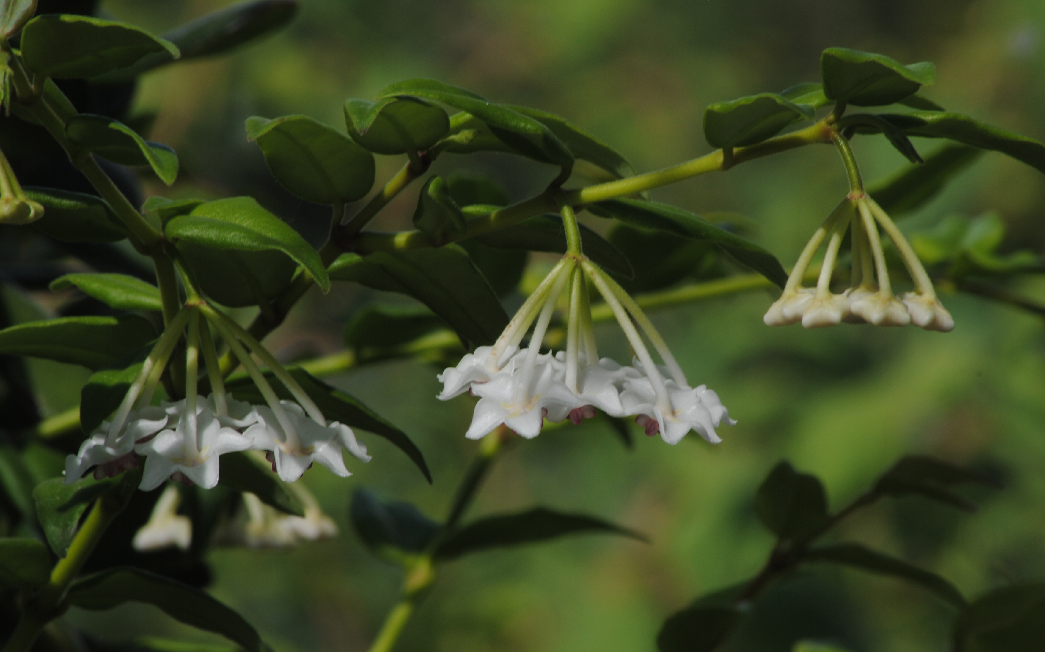 We inherited a Hoya from my after & in our conservatory it flowers prolifically. The odd thing is that the flower clusters all hang down.